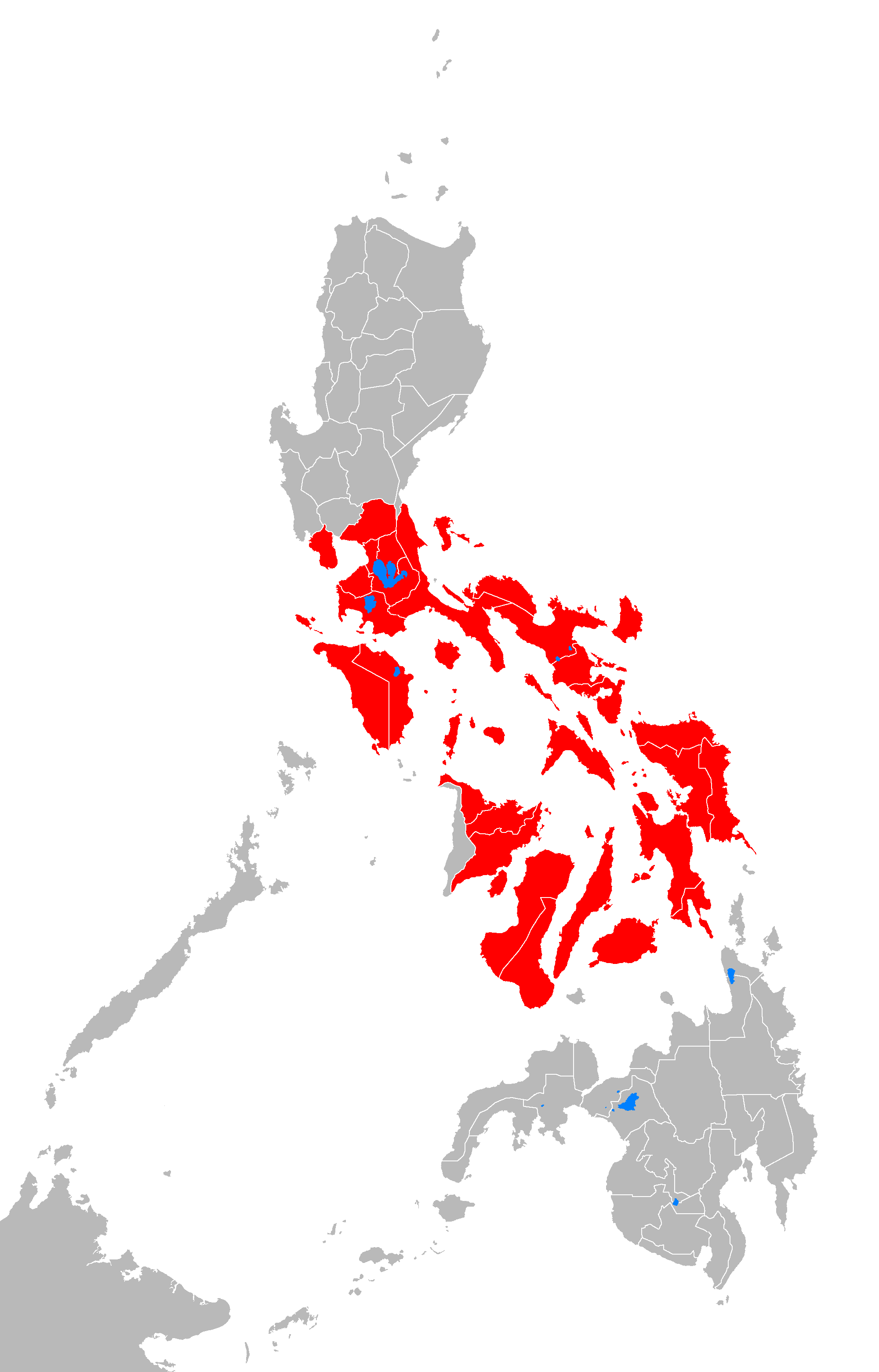 Provinces of the Philippines in which public storm signals were raised for preparations against Typhoon Caloy.